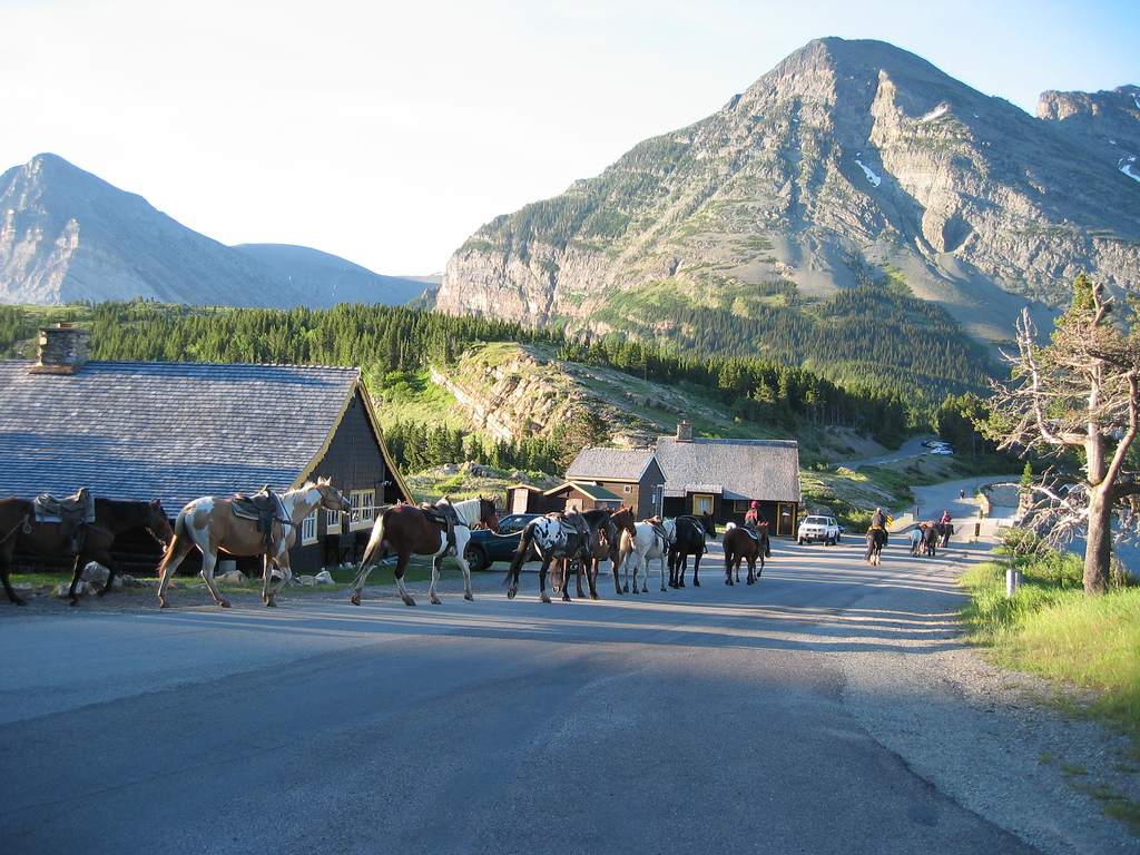 Horses in Many Glacier (Glacier National Park, Montana)